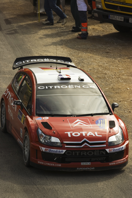 Sébastien Loeb with his Citroën C4 WRC at the 2007 Rally Catalunya.